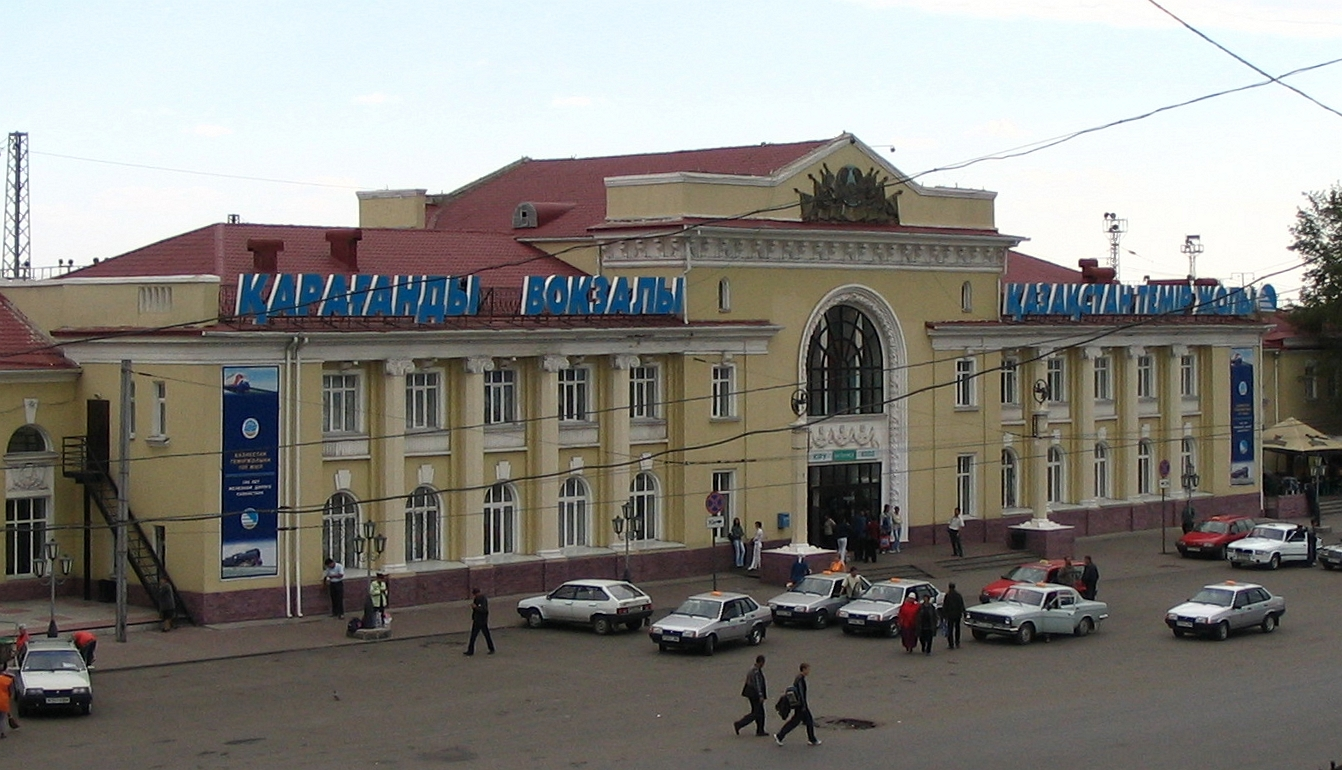 Train stations in Qaragandy